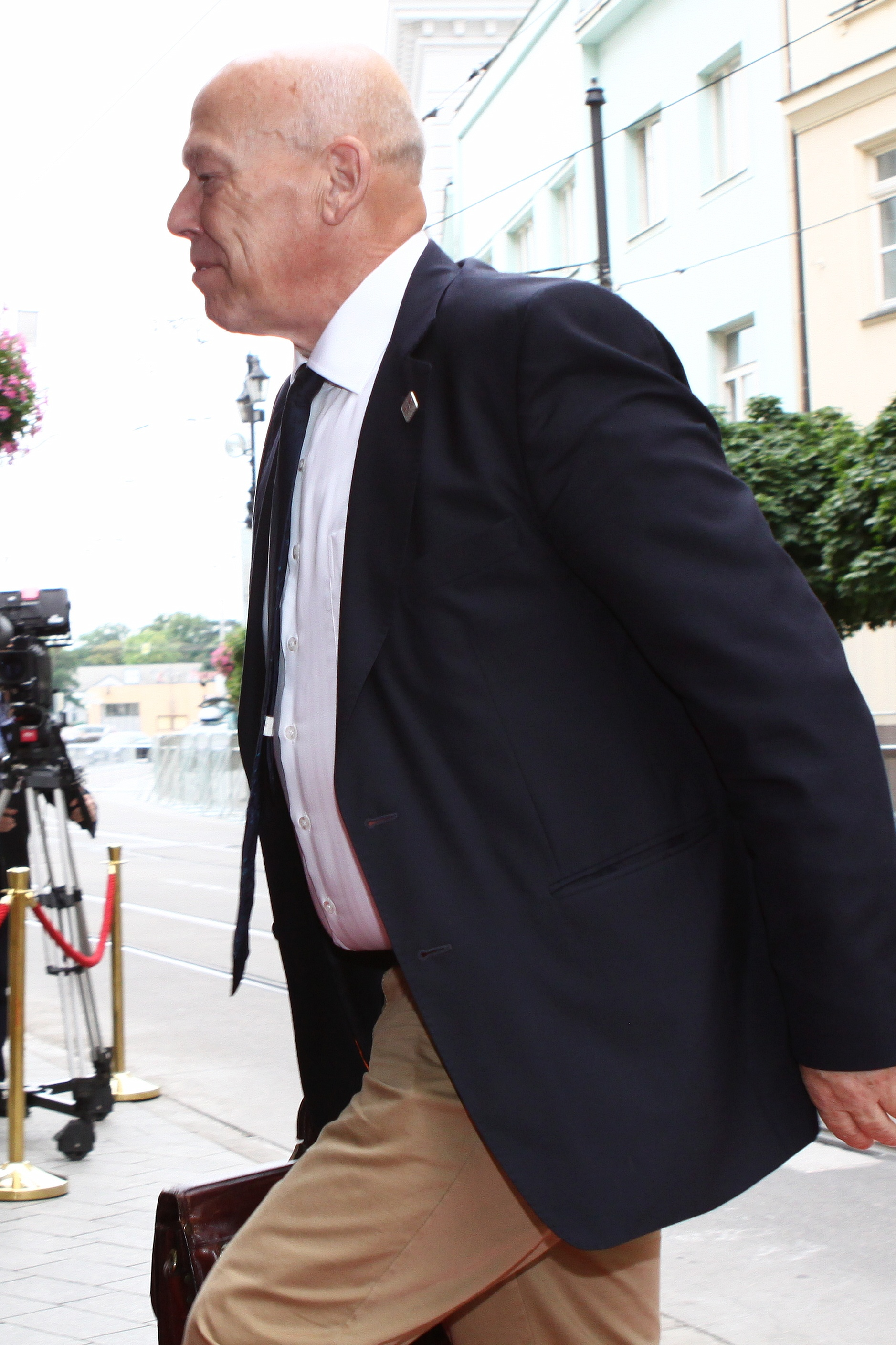 European Commission CAE, Mr. Jos Delbeke, Director-General, DG Climate Action, European Commission Informal Meeting of Environment and Climate Change Ministers Photo: Andrej Klizan